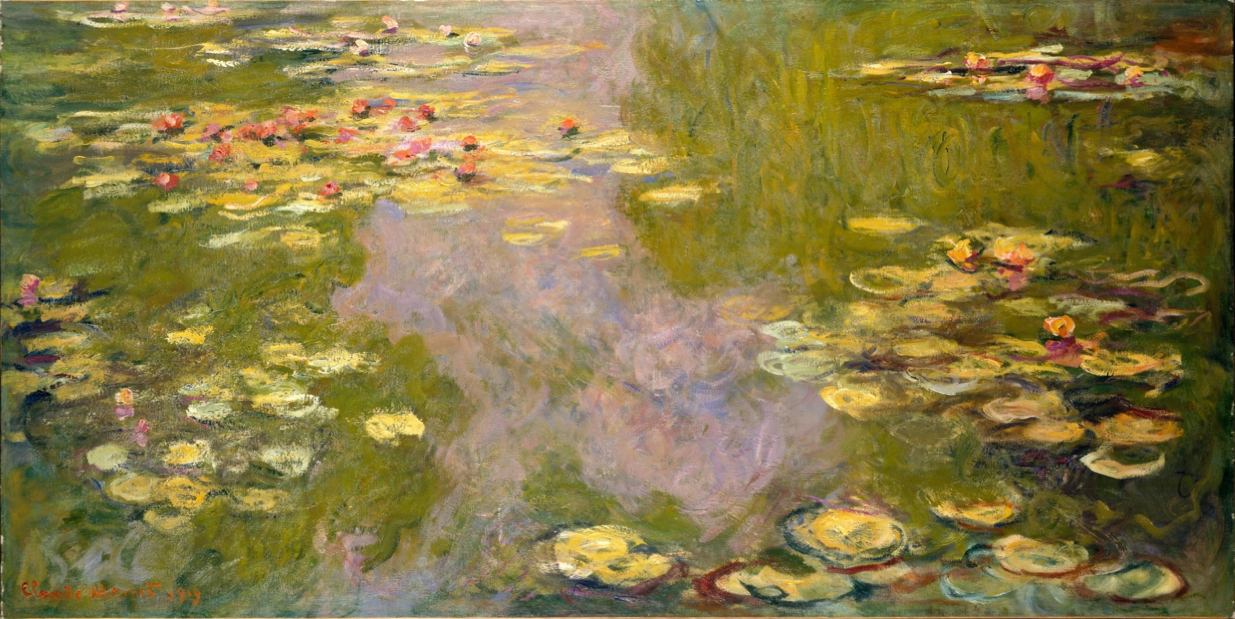 Claude Monet (French, 1840–1926) Water Lilies, 1919 Oil on canvas; 39 3/4 x 78 3/4 in. (101 x 200 cm) The Metropolitan Museum of Art, New York, The Walter H. and Leonore Annenberg Collection, Gift of Walter H. and Leonore Annenberg, 1998, Bequest of Walter H. Annenberg, 2002 (1998.325.2) View at the Metropolitan Museum of Art website Wikipedia Loves Art at the Metropolitan Museum of Art This photo of item # 1998.325.2 at the Metropolitan Museum of Art was contributed under the team name "shooting_brooklyn" as part of the Wikipedia Loves Art project in February 2009. Metropolitan Museum of Art The original photograph on Flickr was taken by shooting brooklyn—please add a comment to the original Flickr page whenever a use has been made on Wikipedia or another project. Project galleries on Flickr: this institution, this team